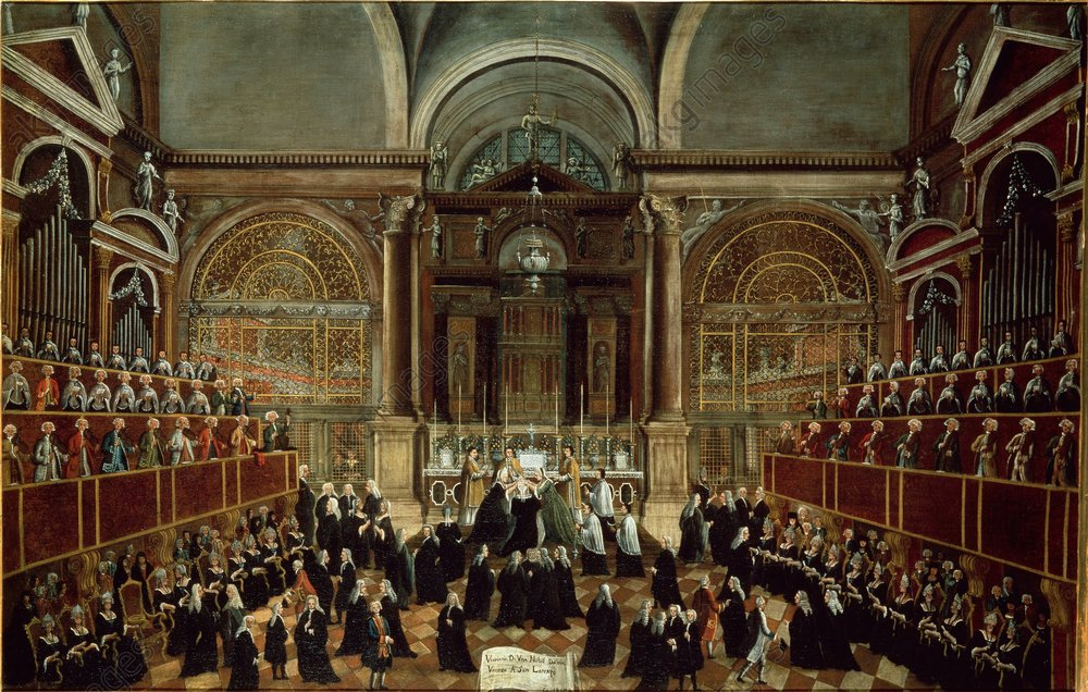 Robing of a Venetian noblewoman in the Church of S. Lorenzo